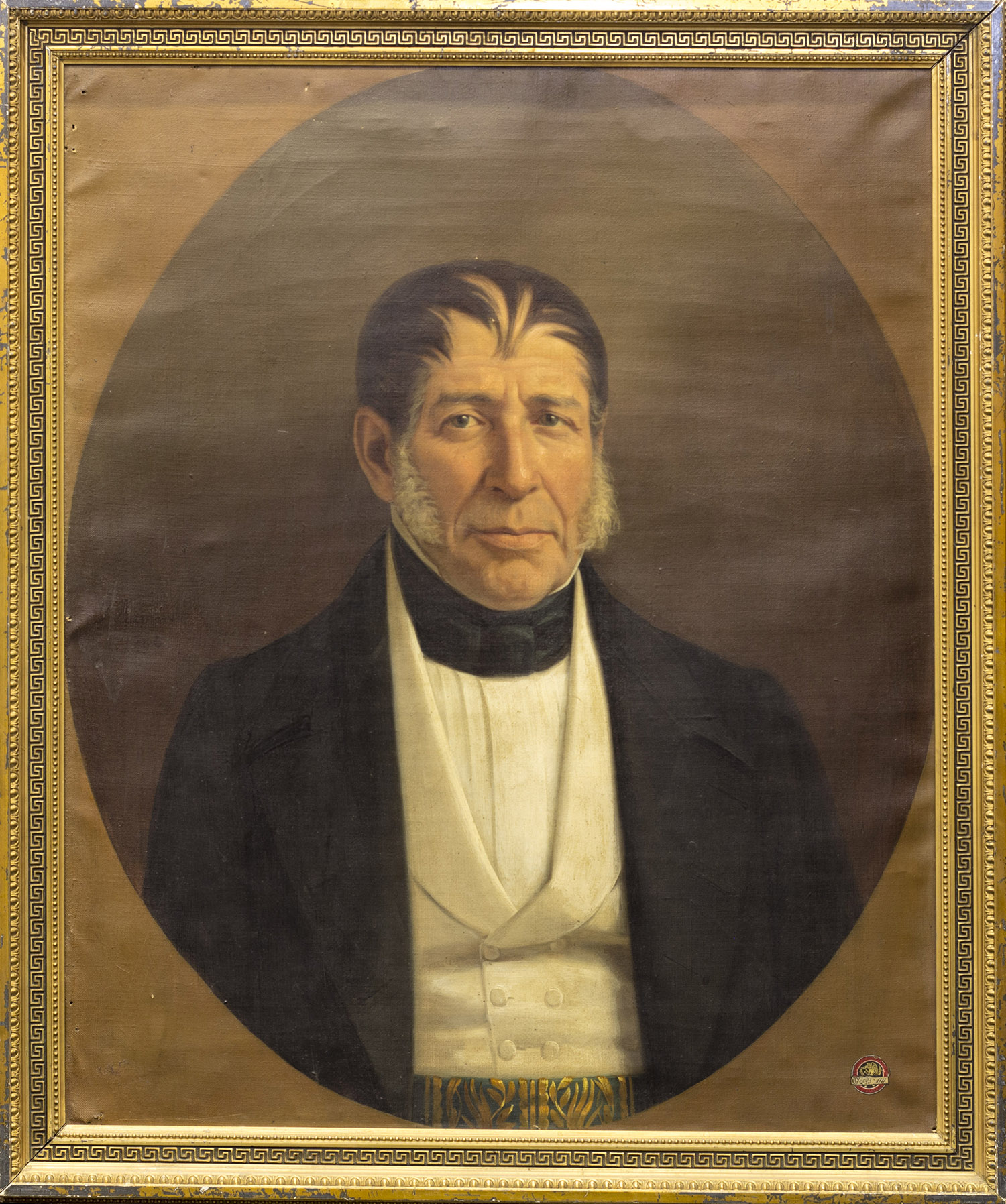 Portrait of José Joaquín de Herrera